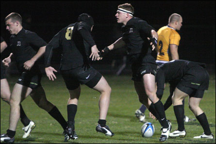 West Point Rugby Players